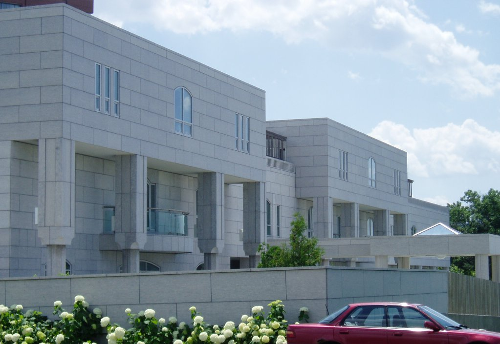 Embassy of Saudi Arabia, Ottawa